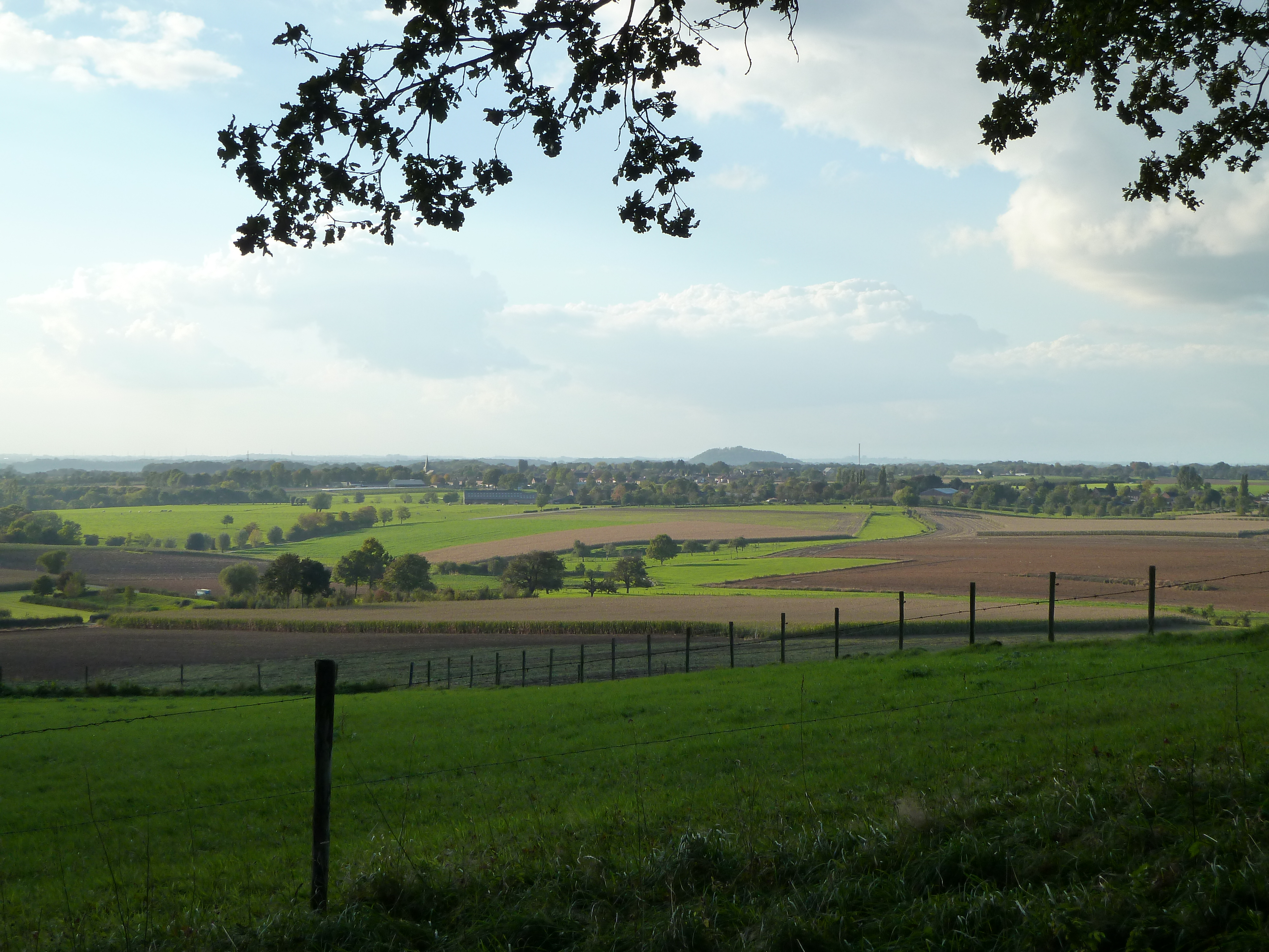 View from the Banholtergrubbe, Banholt/Mheer, Limburg, the Netherlands